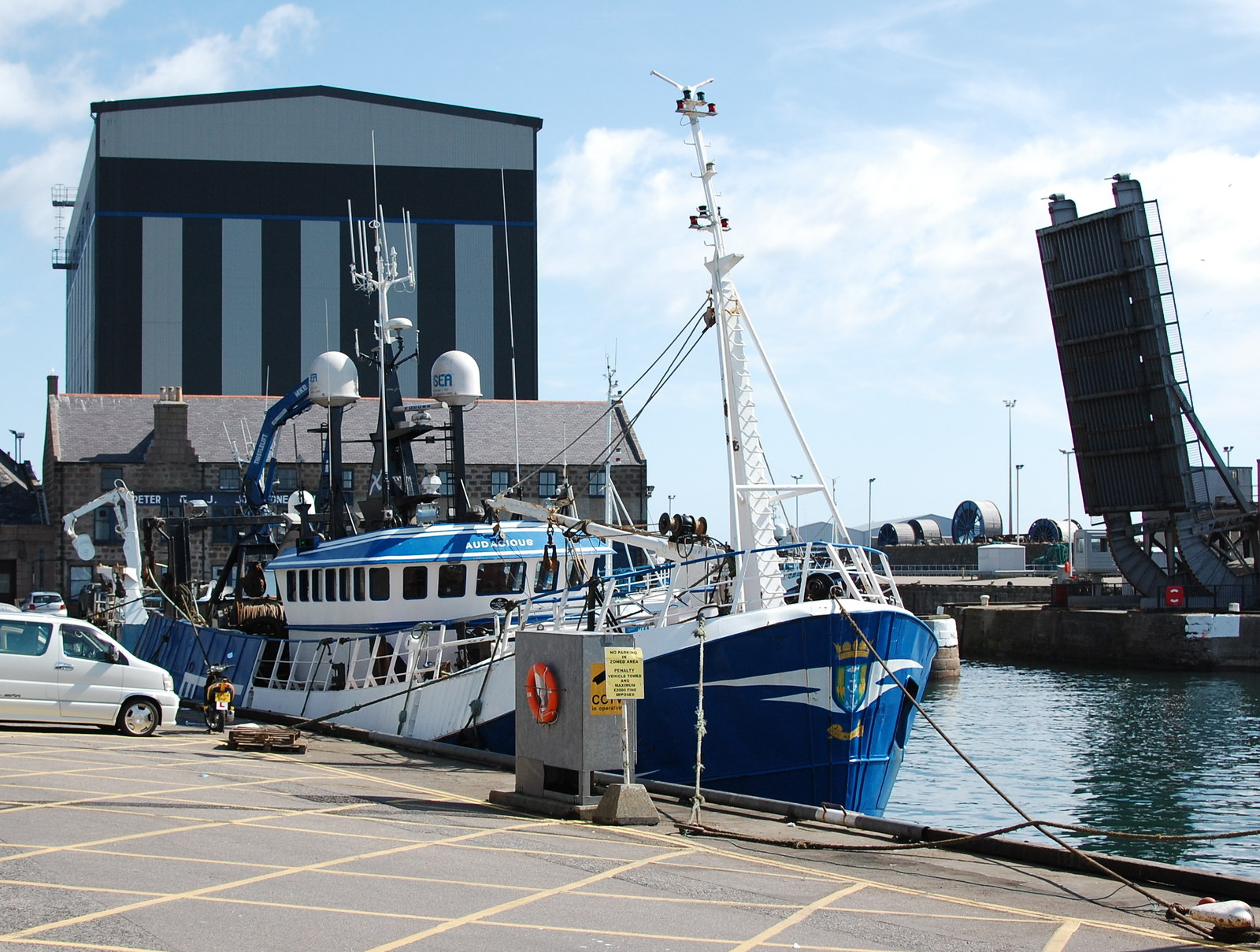 Trawler at Peterhead South Harbour, Peterhead, Scotland.